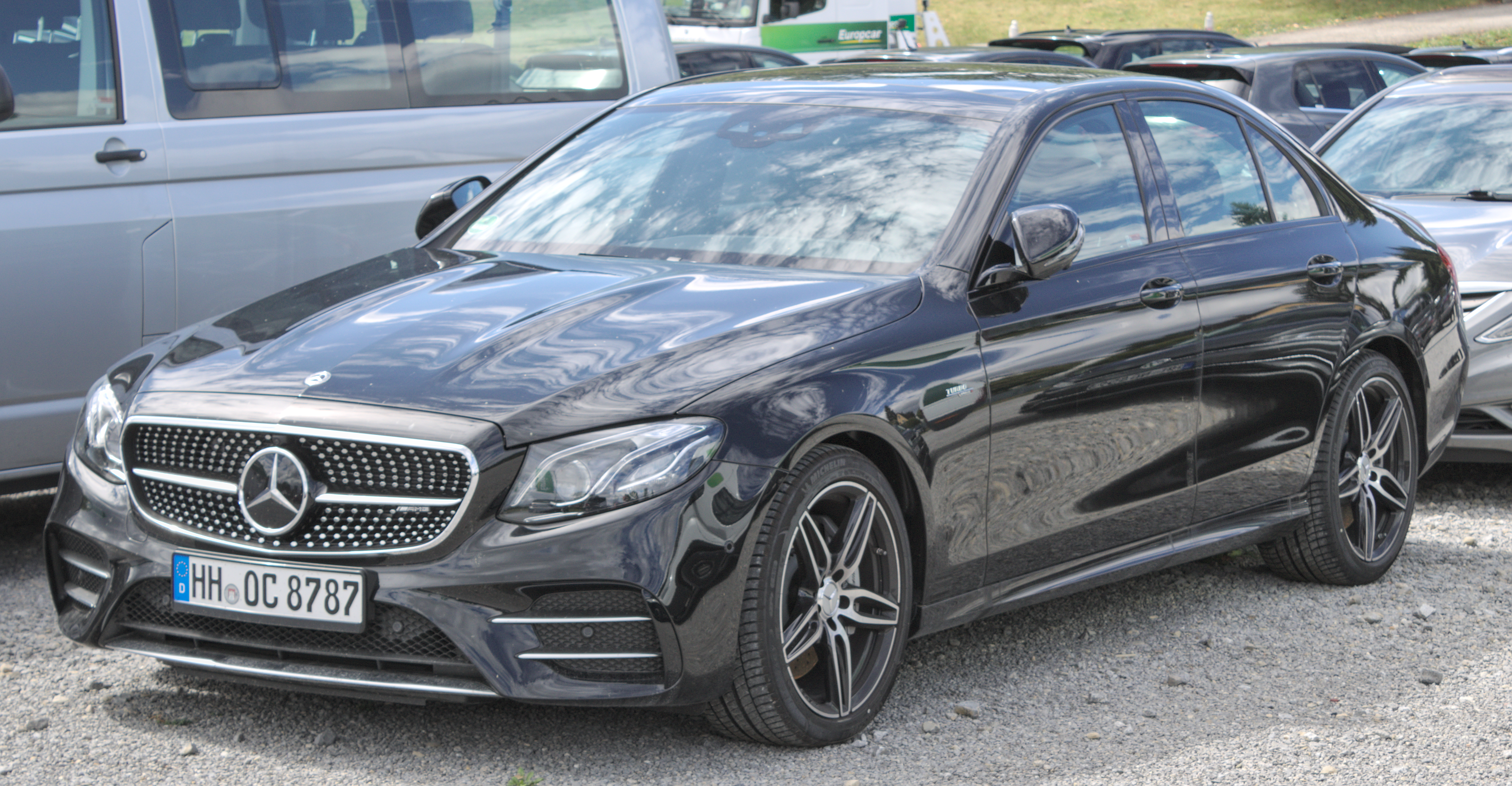 Mercedes-AMG_E_53_(W213) in Stuttgart-Vaihingen